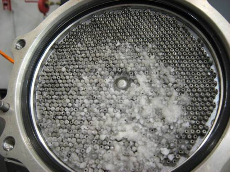 Ice on the inlet face of a Rolls-Royce RB211 Trent 800 series FOHE (Fuel-Oil Heat Exchanger).